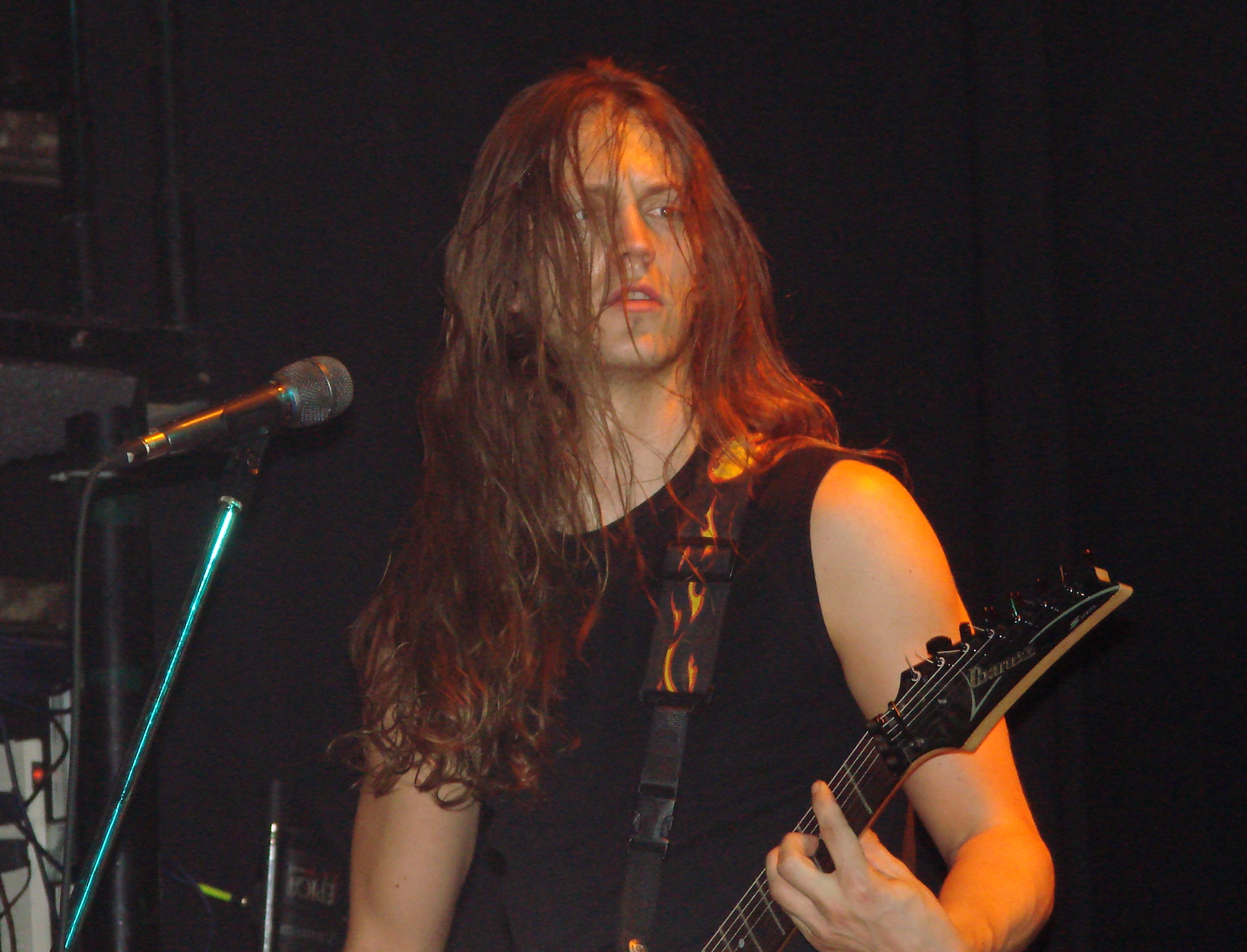 Mark Jansen, guitarist and vocalist of the symphonic metal band Epica, during a concert done in ND Ateneo theatre in Buenos Aires, Argentina on April 30, 2007.